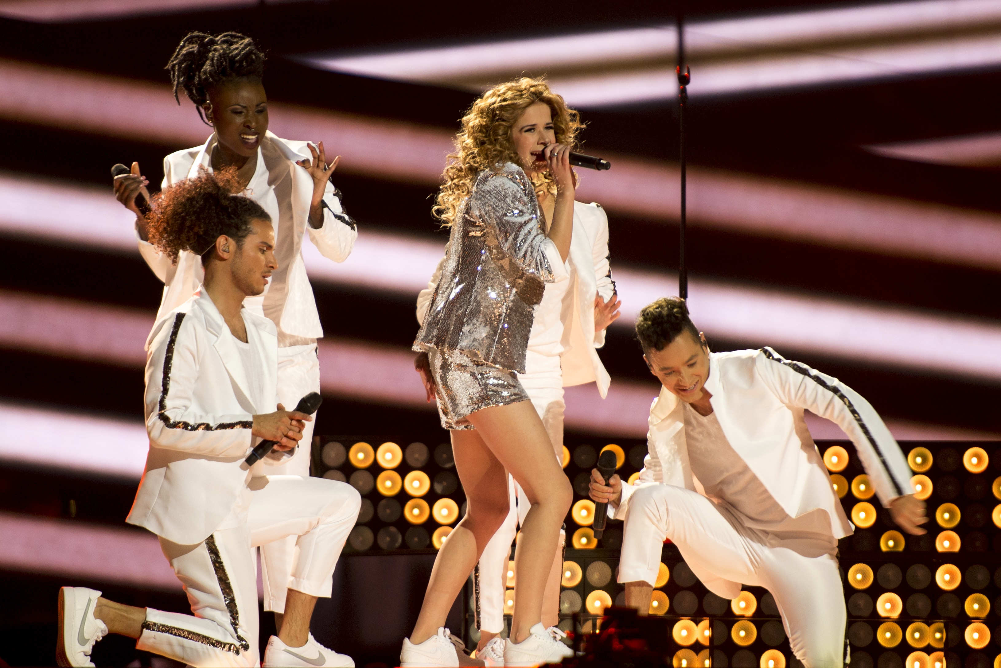 Laura Tesoro representing Belgium with the song "What's The Pressure" during a rehearsal before the second semi final of the Eurovision Song Contest 2016 in Stockholm. (Help translate this text)